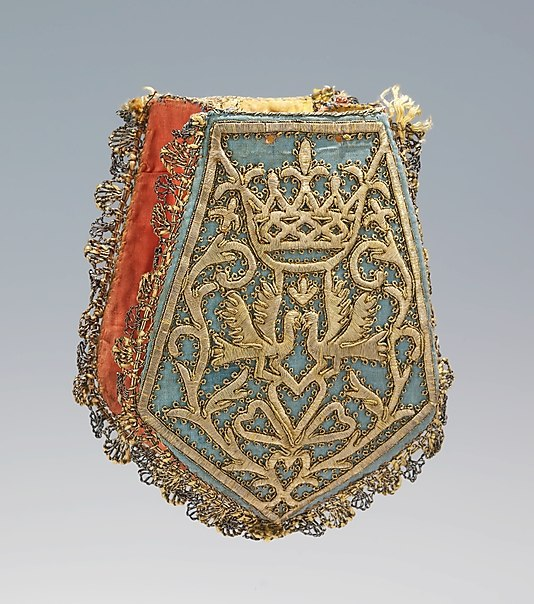 from the collection of Natalia de Shabelsky (1841-1905)